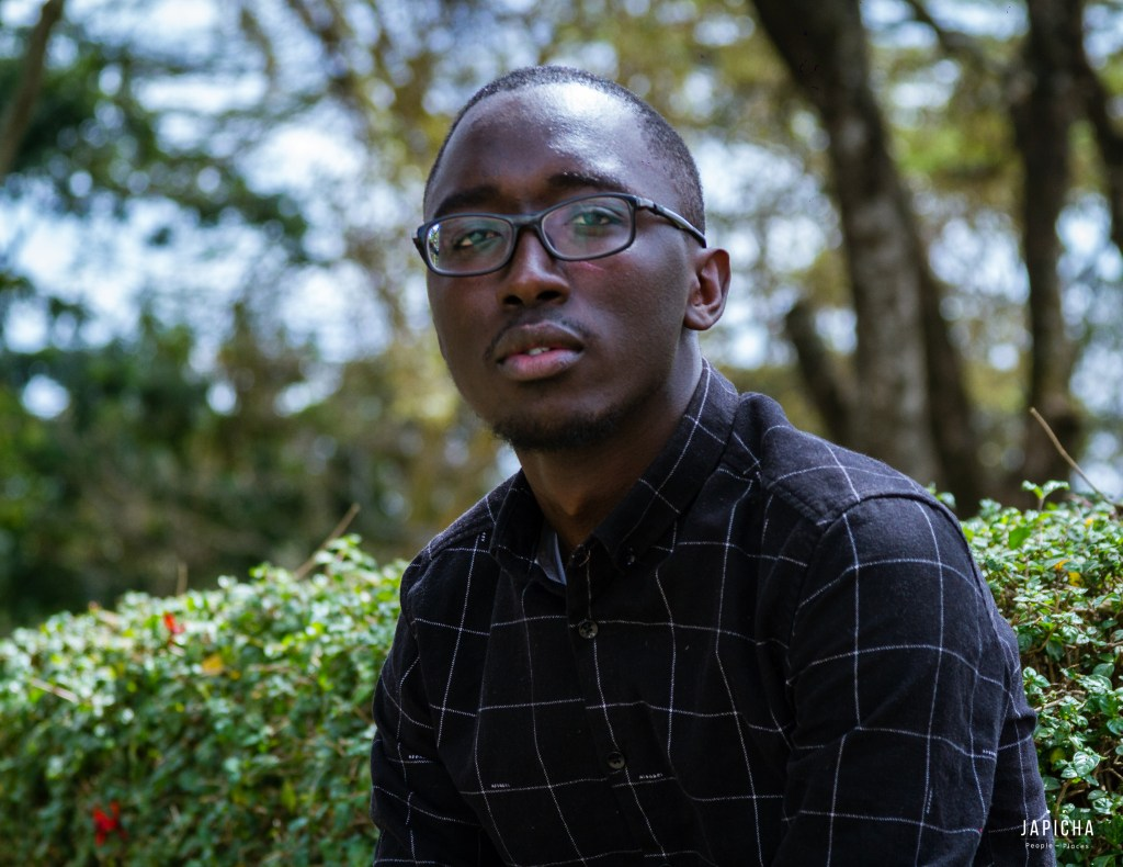 Recent image of Troy Onyango (2015)